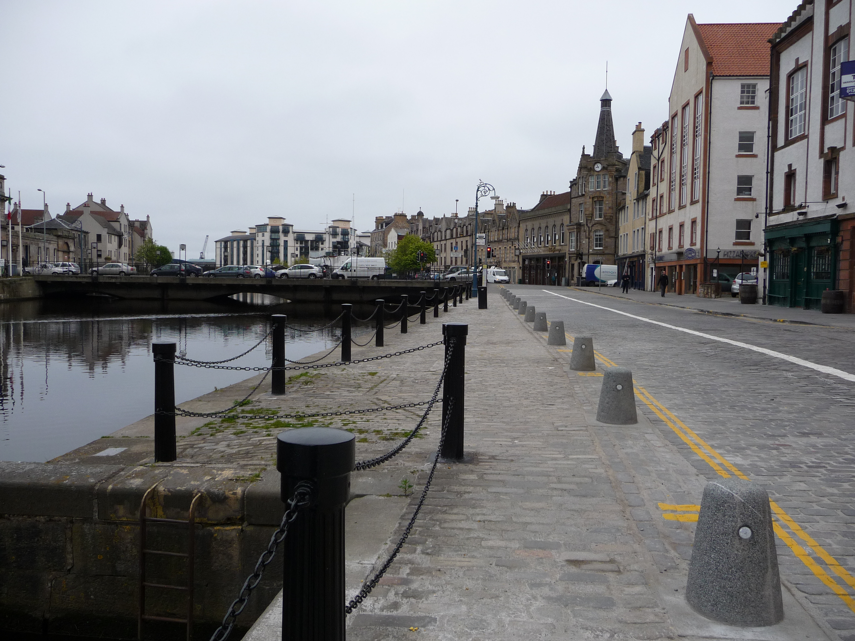 What happened to the lovely old bus stop?